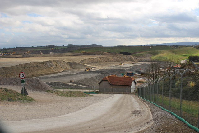 Construction of new power station (C) at Hinkley Point